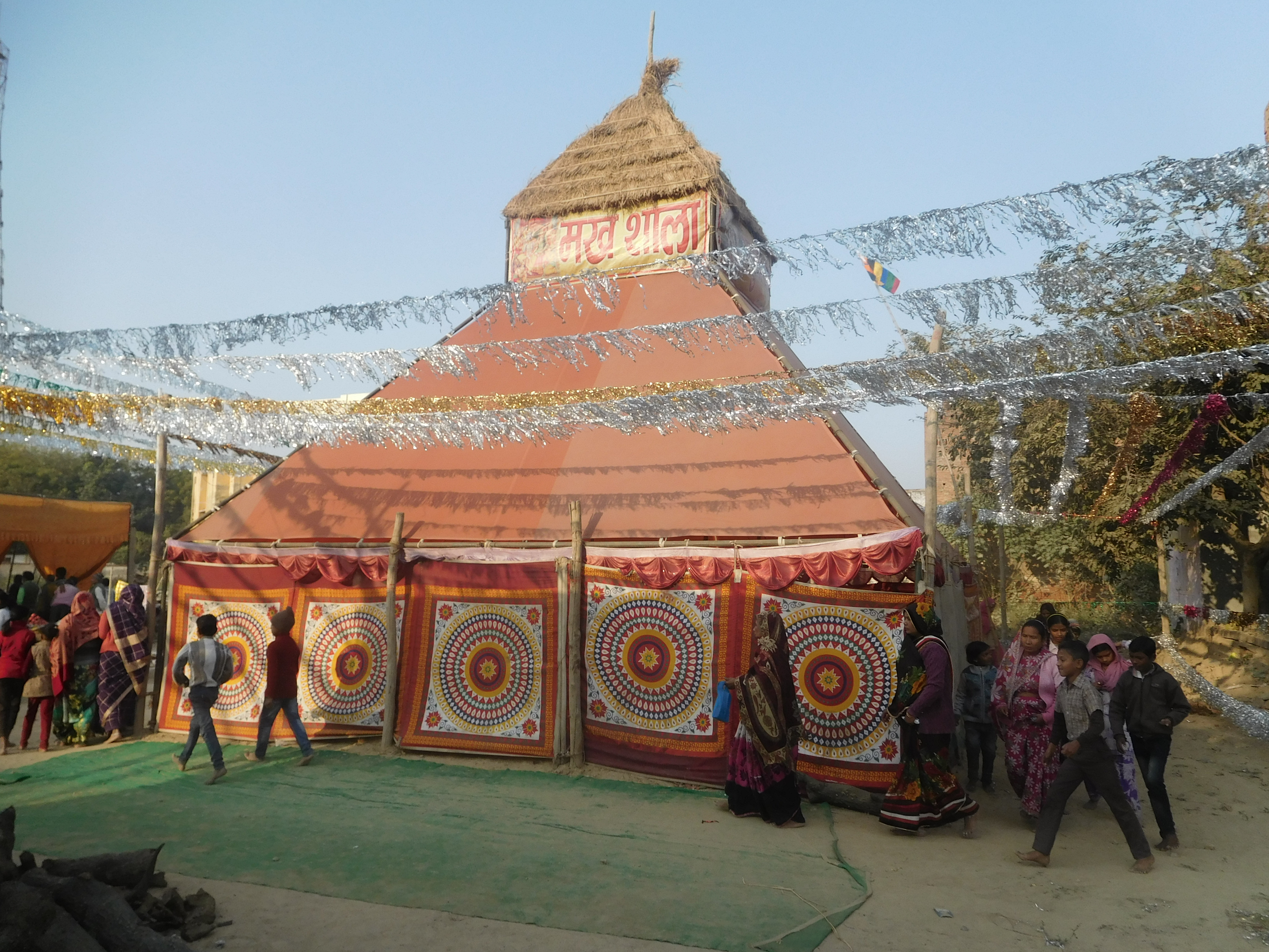 YAGYA Mandap , for highest Hindu religious program